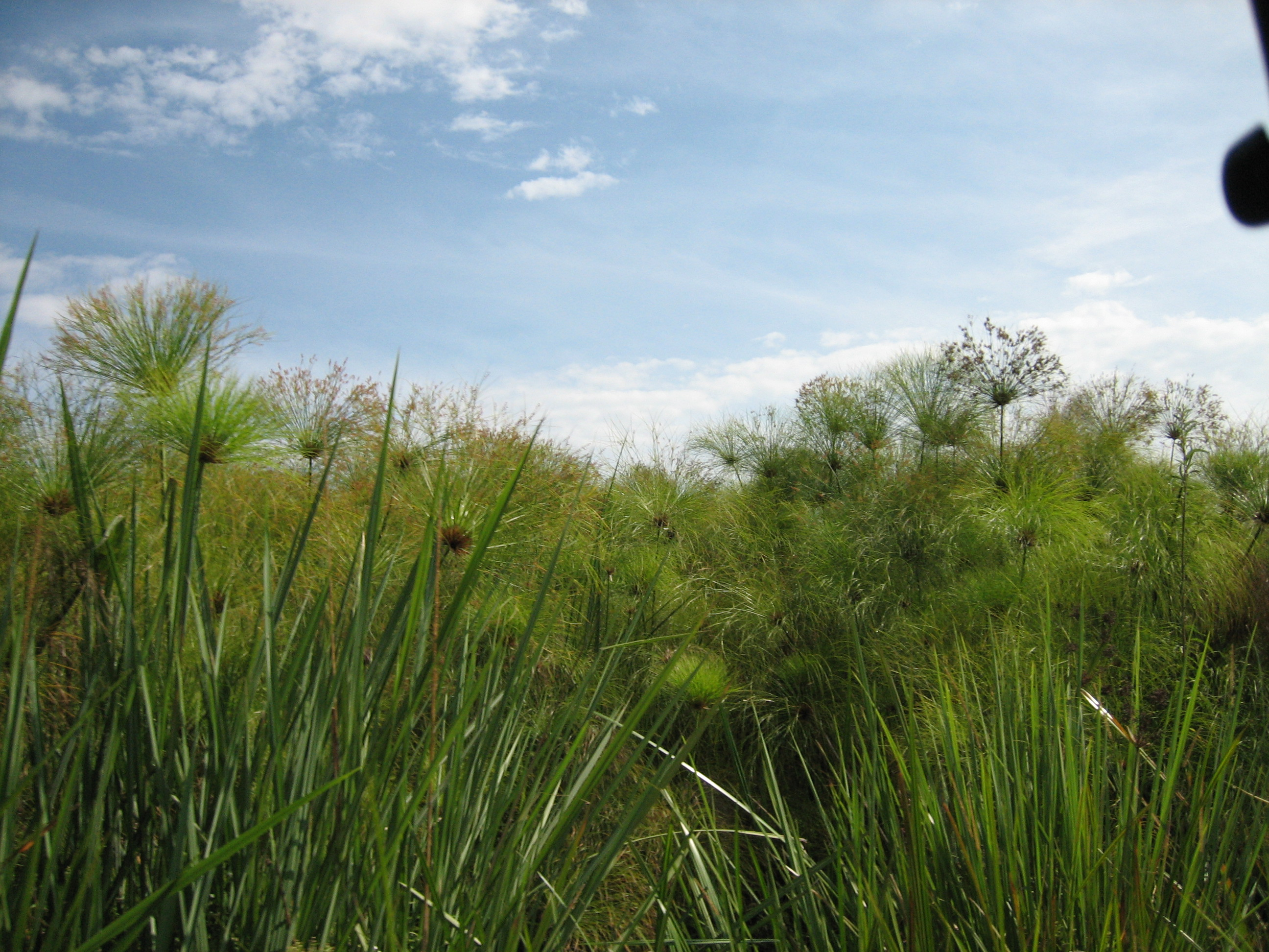 natural papyrus plants growing in the Ugandan wetlands, picture taken in Kabarole district